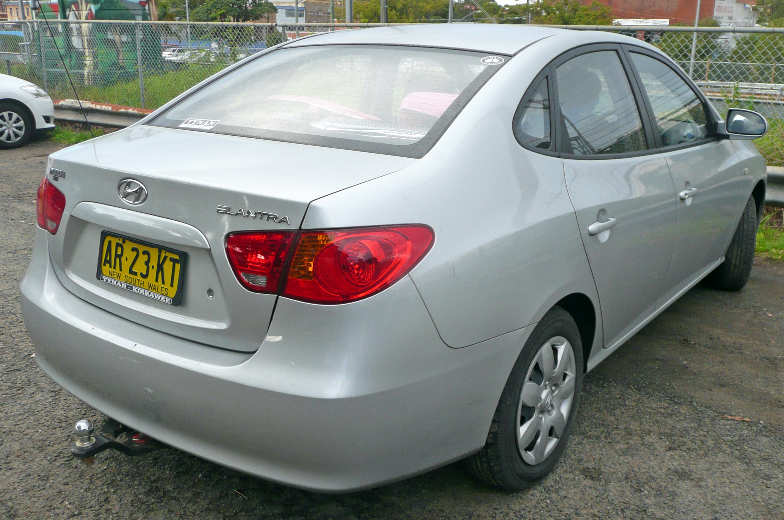 2006–2009 Hyundai Elantra (HD) SX sedan. Photographed in Sutherland, New South Wales, Australia.